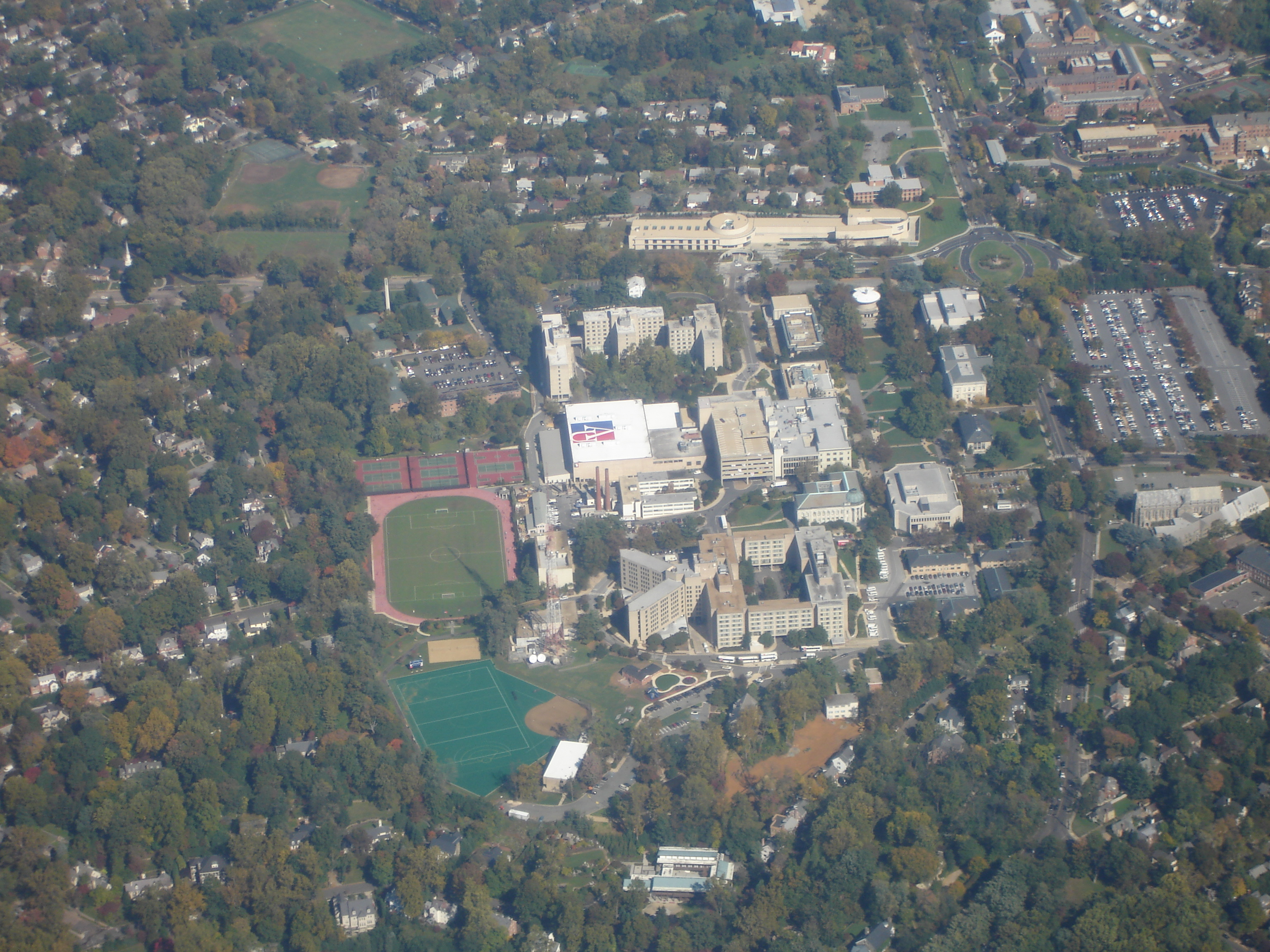 Aerial photo of American University's main campus. Taken from Northwest Airlines flight 231, traveling from Washington-Reagan National Airport to Detroit.